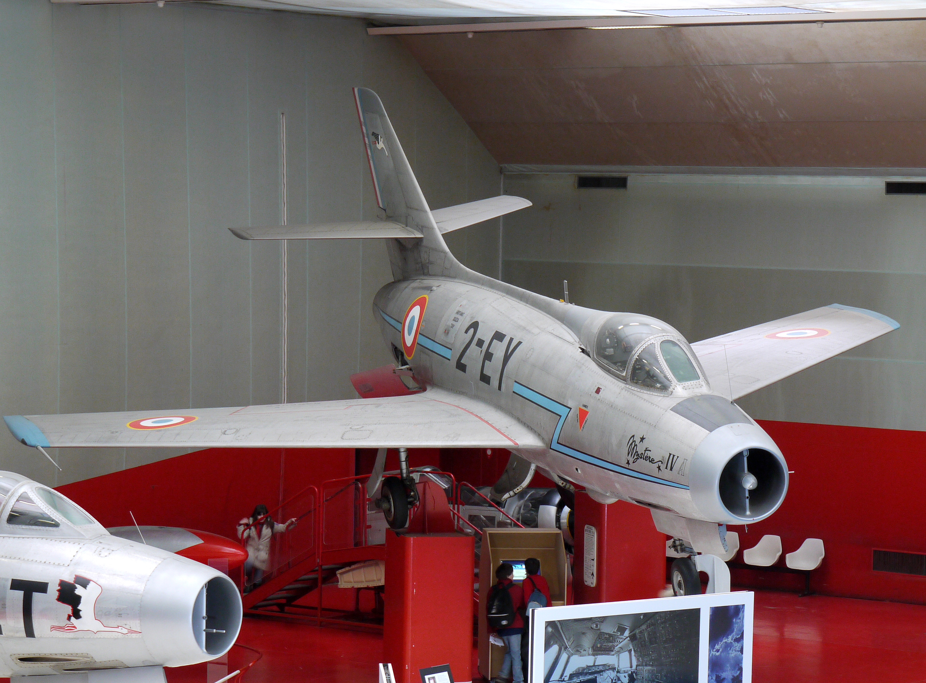 Fighter aircraft Mystere IV (1952), Museum of Air and Space Paris, Le Bourget (France)